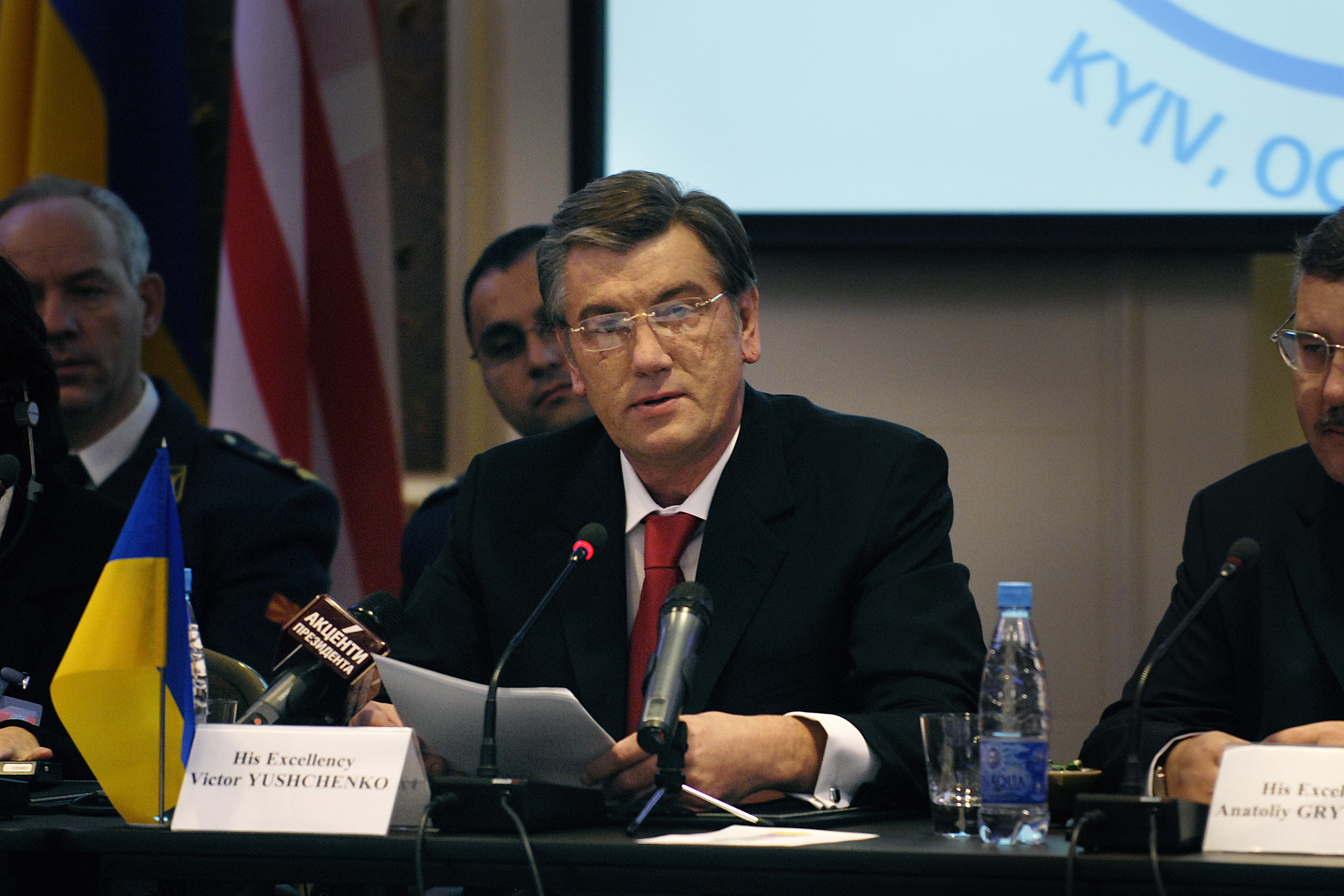 Ukrainian President Viktor Yushchenko opens the 12th annual meeting of the Southeast Europe Defense Ministerial in Kyiv, Ukraine, Oct. 22, 2007.